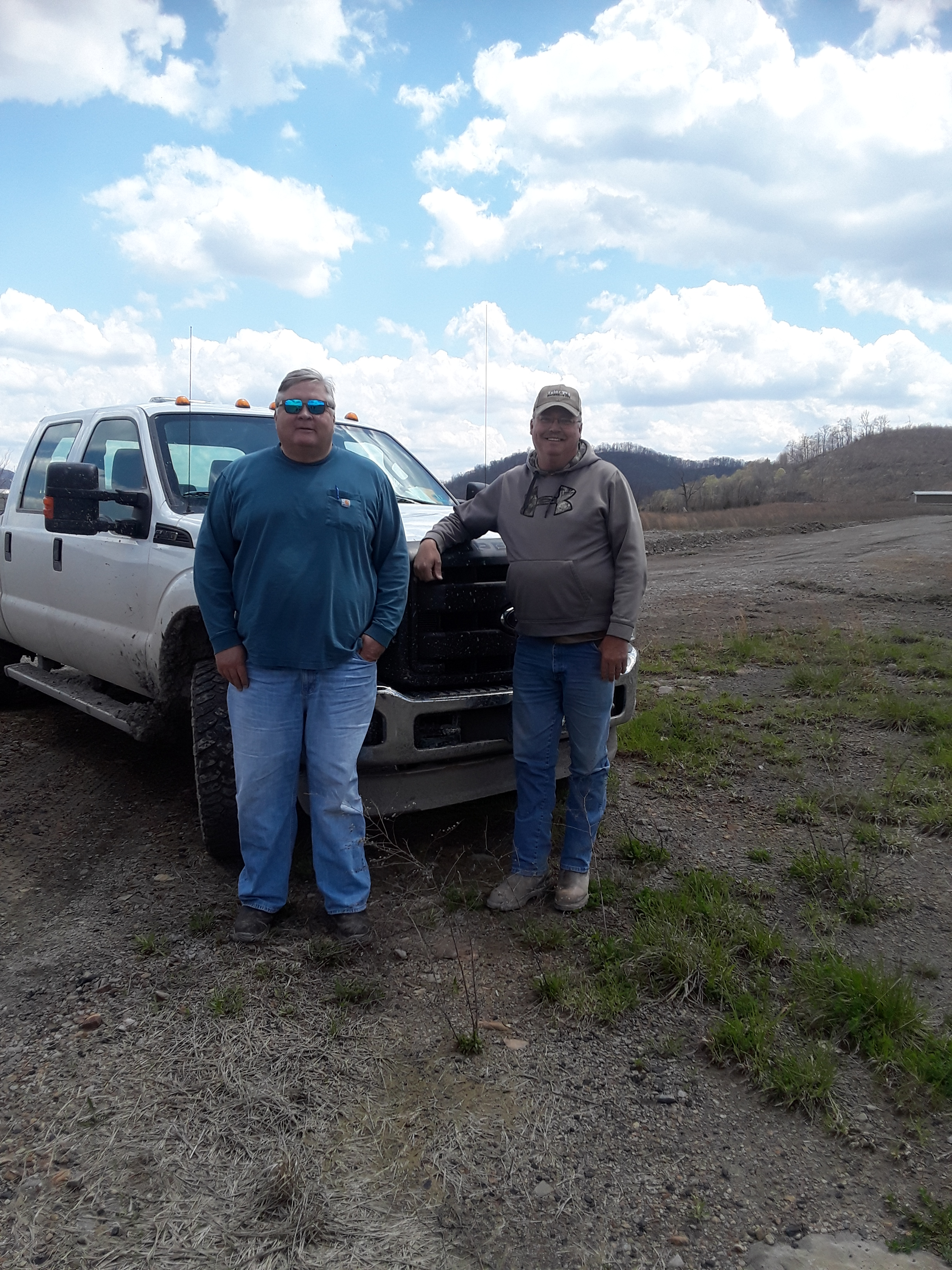 Prichard Mining operator Mr. Andrew Jordan with one of his mine workers.